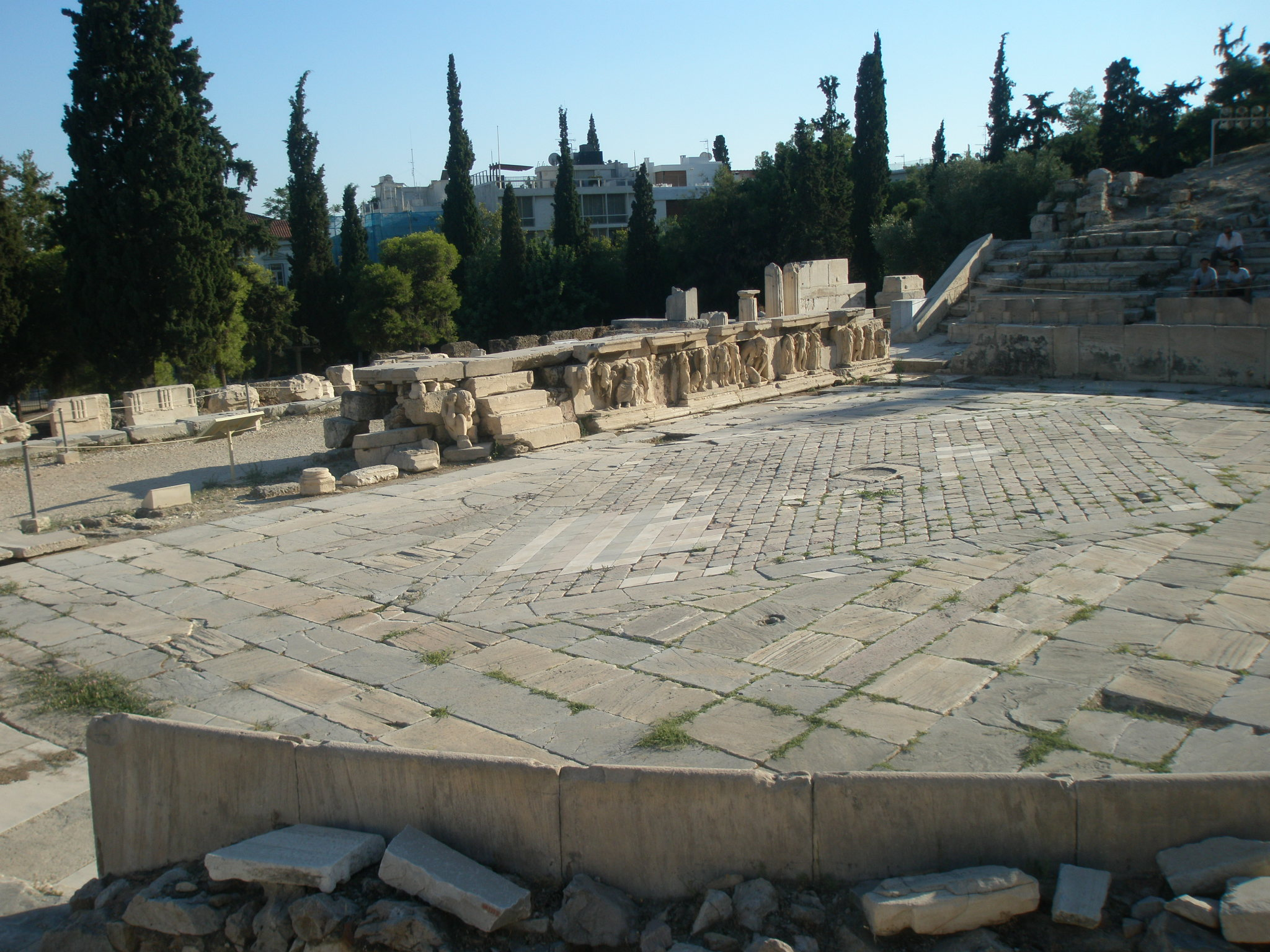 The orchestra of the theatre of Dionysus, in Athens.